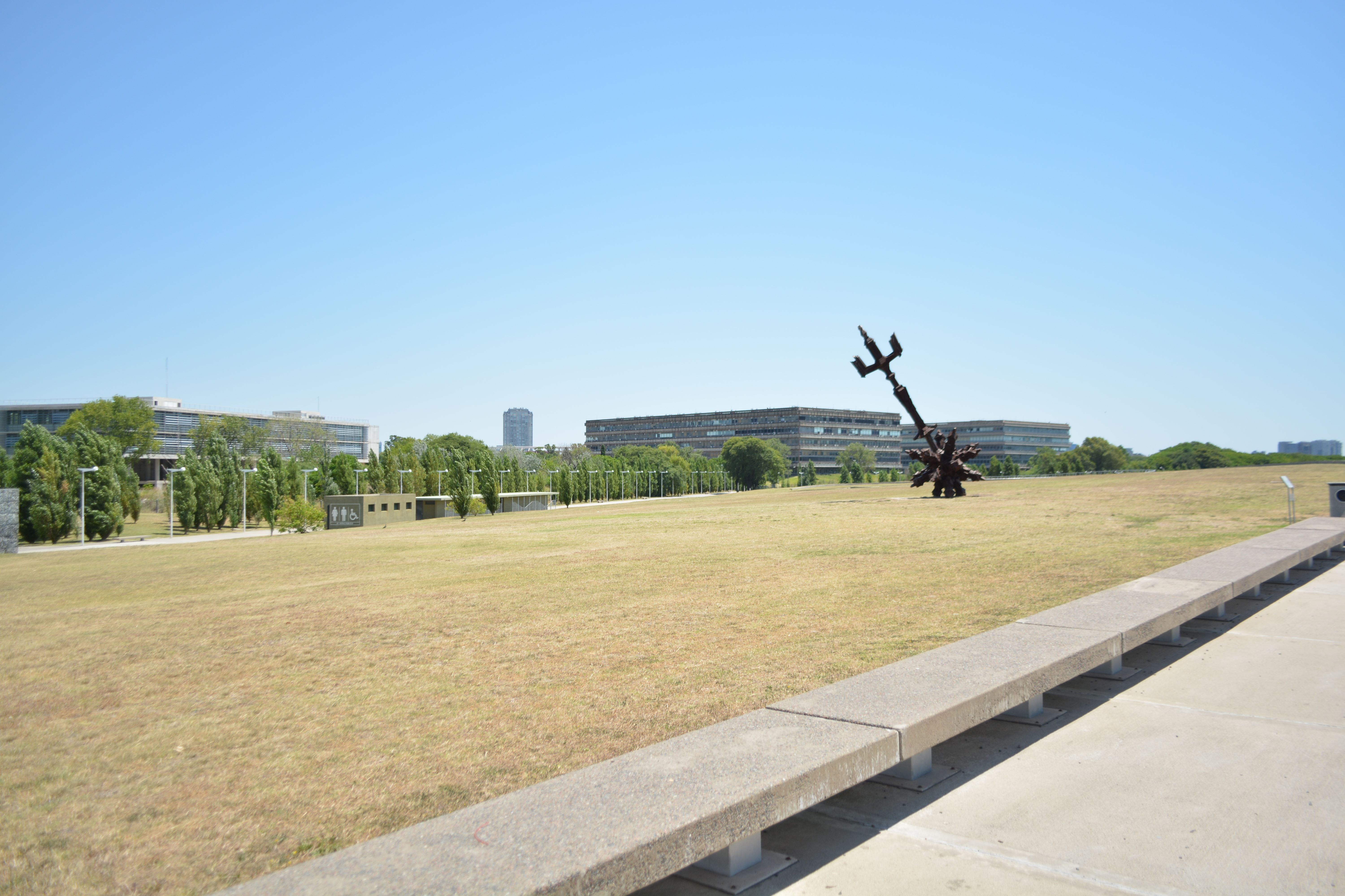 The Remembrance park (Spanish: Parque de la memoria) is a public space situated in front of the Río de la Plata estuary in the northern end of the Belgrano section of Buenos Aires.